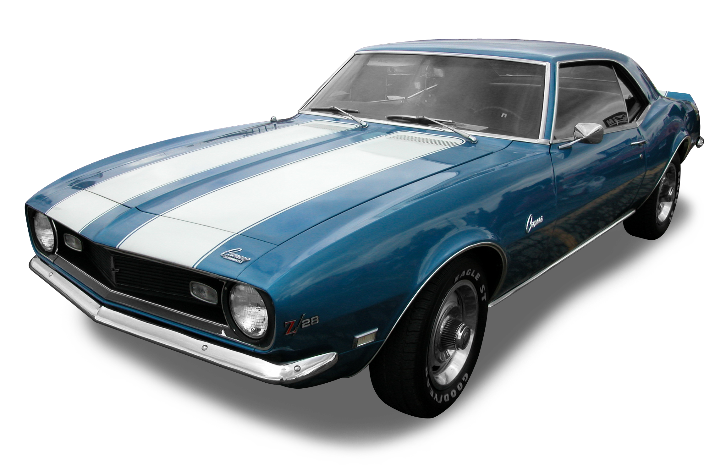 1968 Chevrolet Camaro Z28 at the 2003 Super Chevy Show in Pomona, CA. Camera used is a Nikon Coolpix 5000.